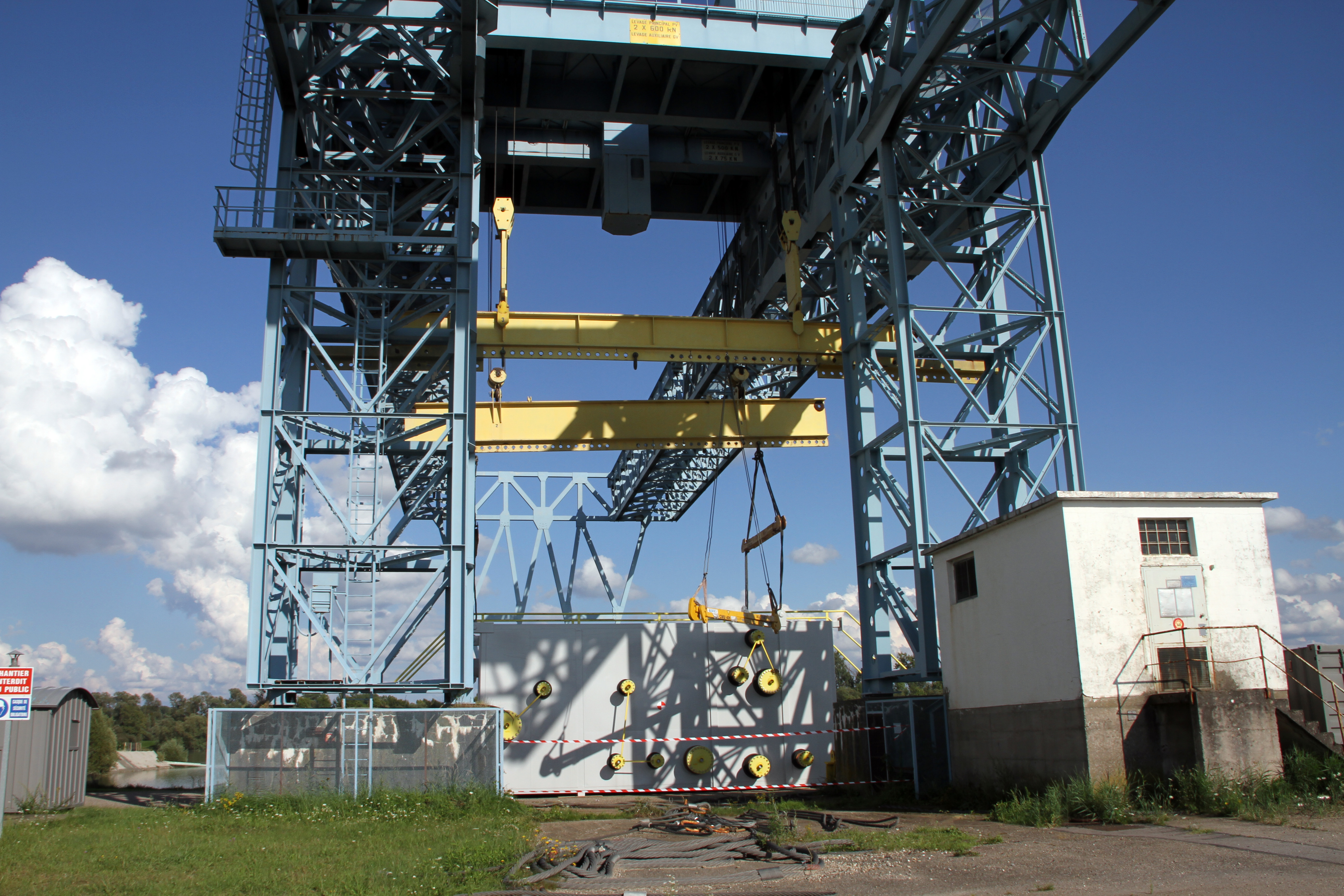 Lauterbourg harbour